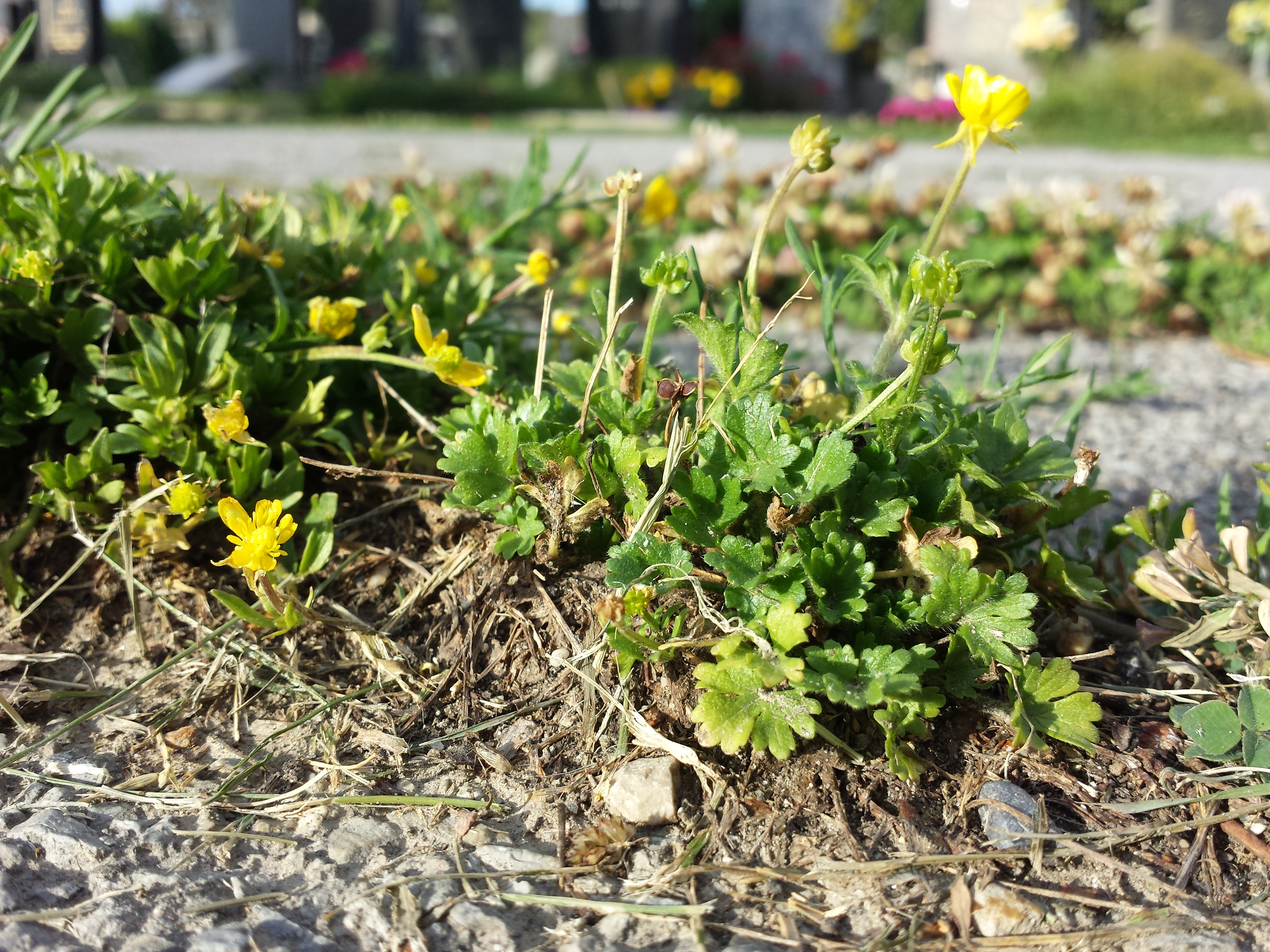 Habitus Taxonym: Ranunculus sardous subsp. sardous ss Fischer et al. EfÖLS 2008 ISBN 978-3-85474-187-9 Location: Jedleseer Friedhof, Vienna-Floridsdorf - ca. 160 m a.s.l. Habitat: gap in road surface